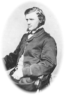 Georg von Neumayer